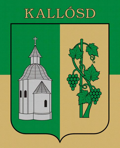 Coat of arms of Kallósd, Hungary